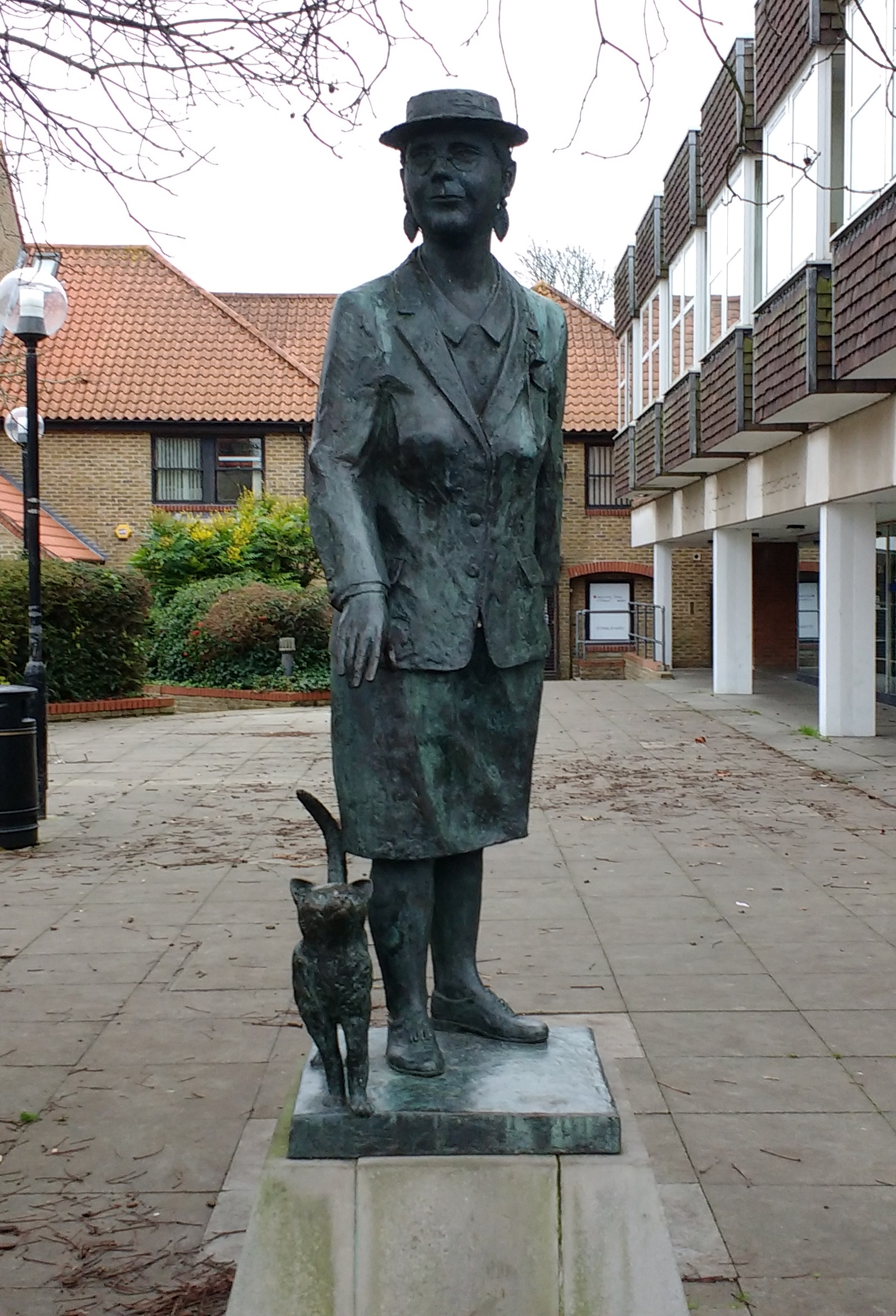 Bronze statue of Dorothy L. Sayers, by John Doubleday. Located on Newland Street, Witham, England.